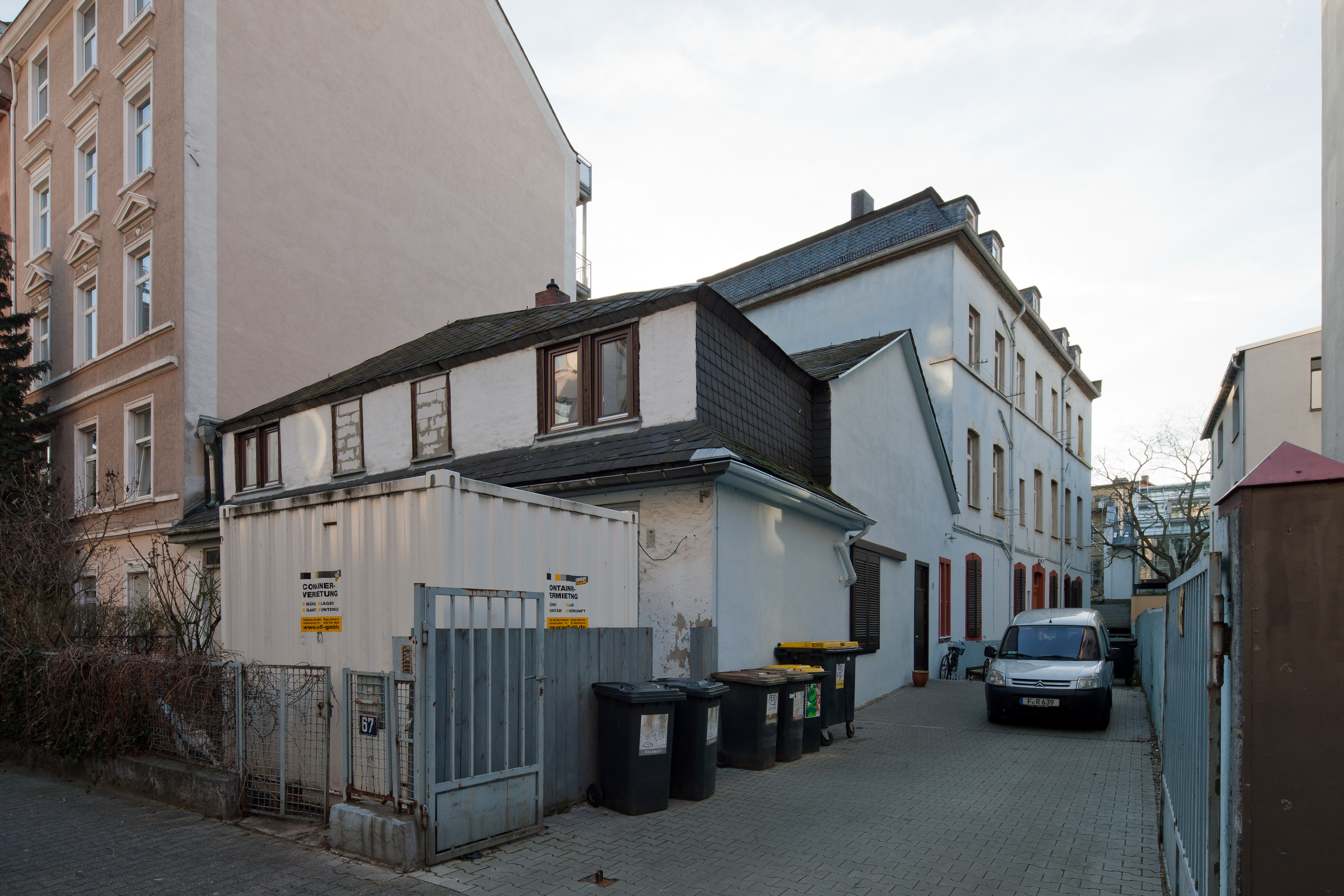 Frankfurt on the Main: Stalburger Oede (Stalburg Waste), main building and eastern fittings at the Humboldtstraße (Humboldt Street) as seen from the east